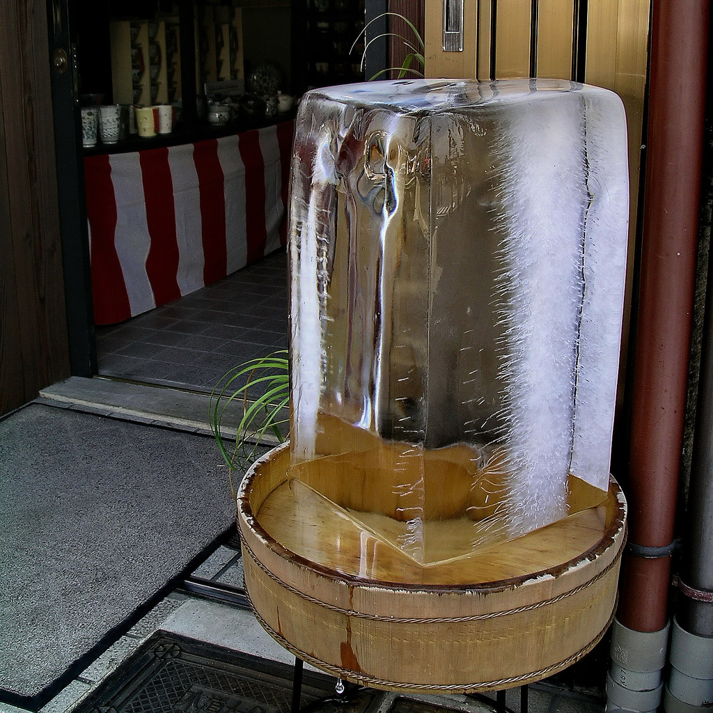 A block of ice welcomes visitors to a pottery shop near Kiyomizu-dera in Kyoto, Japan.